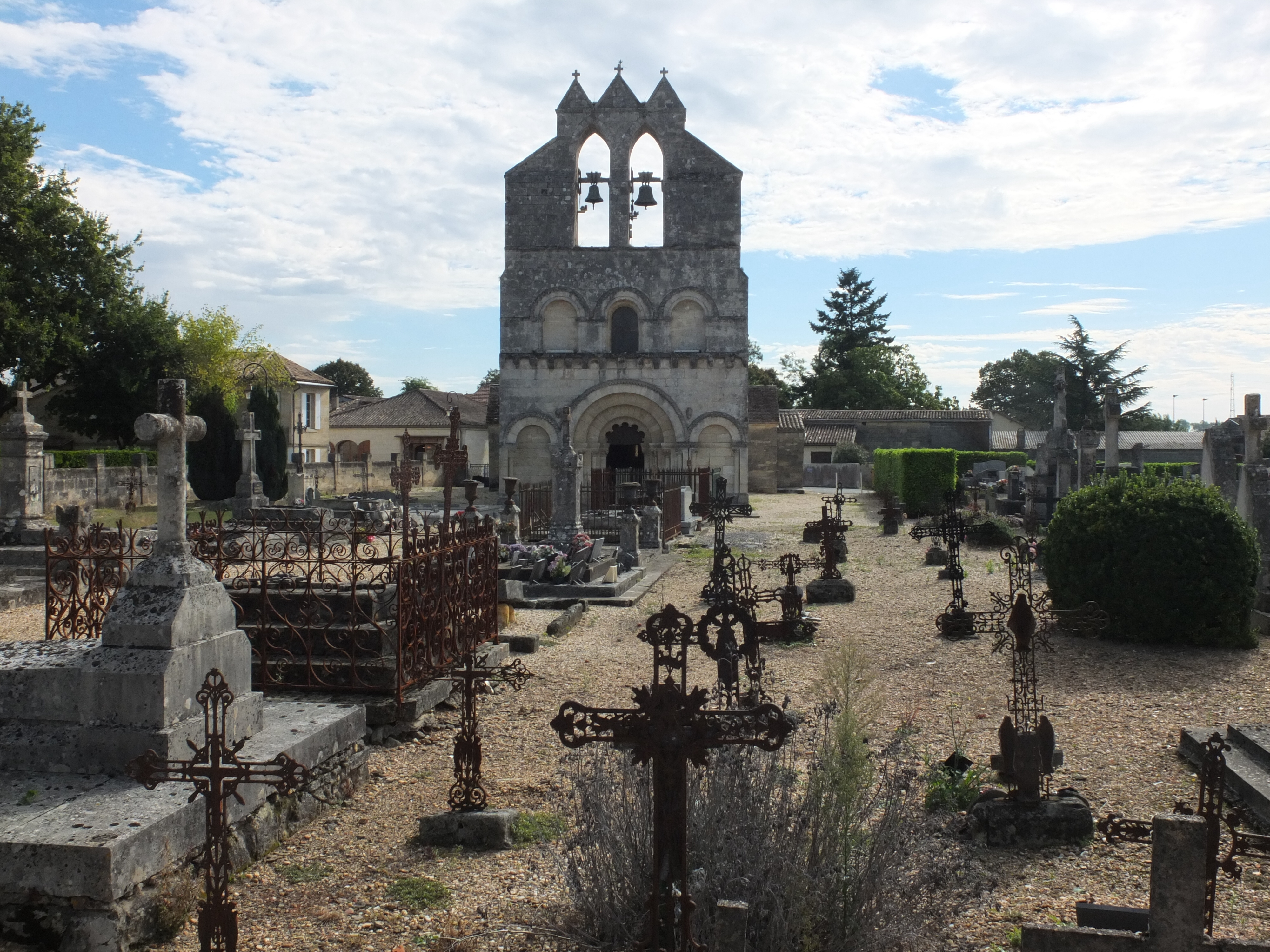 Church Saint Jean-Baptiste in Lalande de Pomerol, France